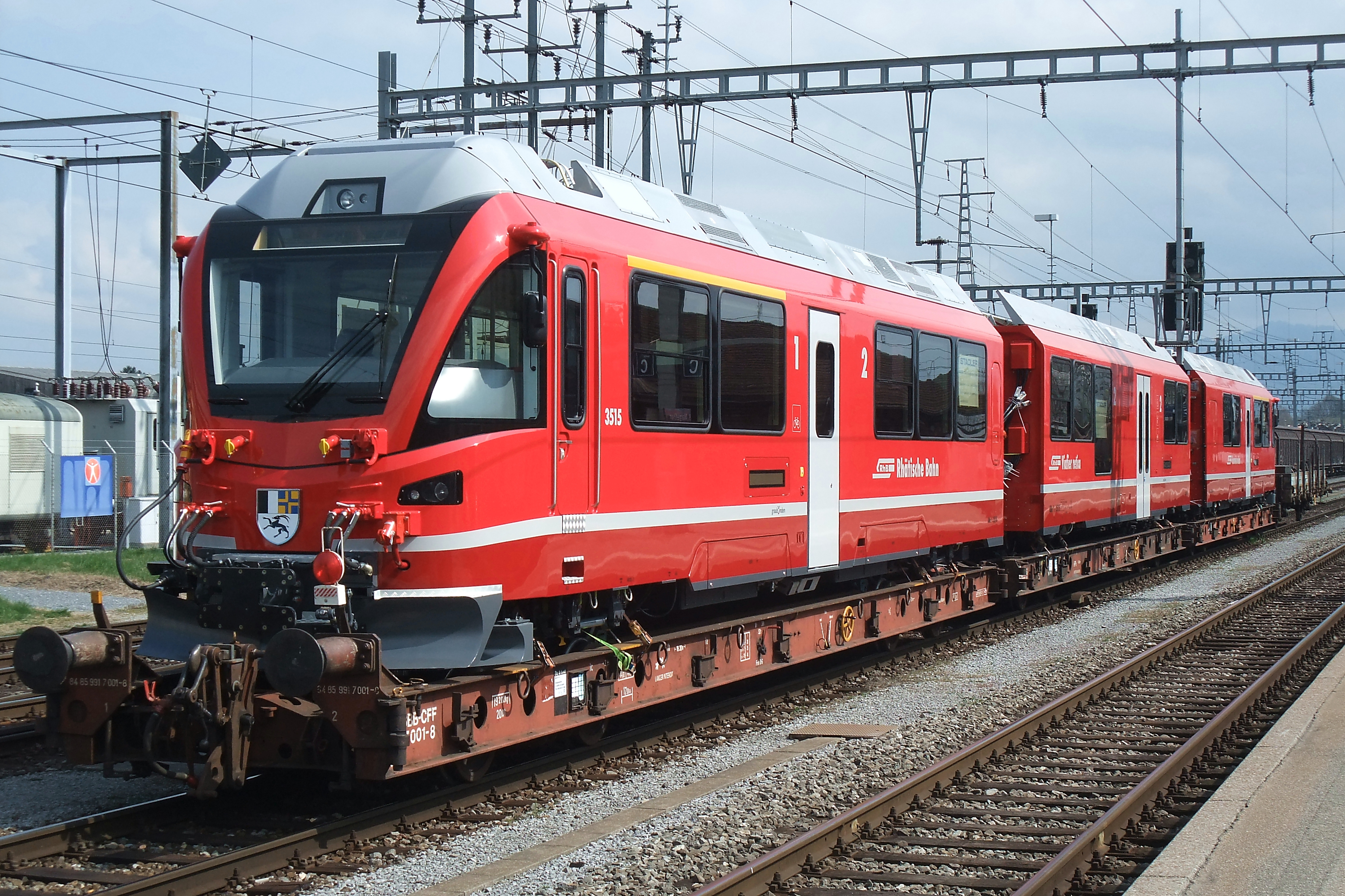 Delivering the last of 15 new double system EMUs for the Rhaetian Railways. The narrow gauge RhB ABe 8/12 was pulled piggyback with a shunter from Stadler Altenrhein to St. Margrethen, Switzerland.